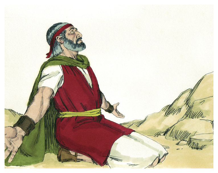 Biblical illustration of Book of Exodus Chapter 20